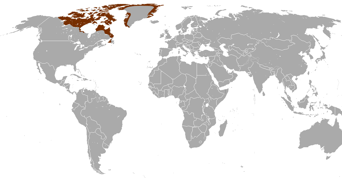 Arctic Hare (Lepus arcticus) range